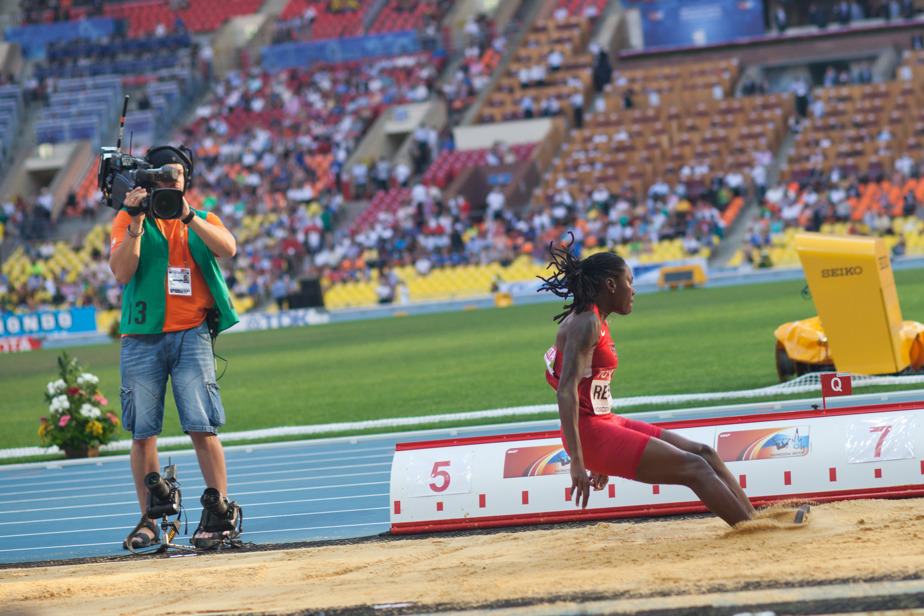 Brittney Reese during 2013 World Championships in Athletics in Moscow.